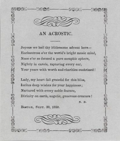 An acrostic. By Nathaniel Dearborn, Boston, 1850.